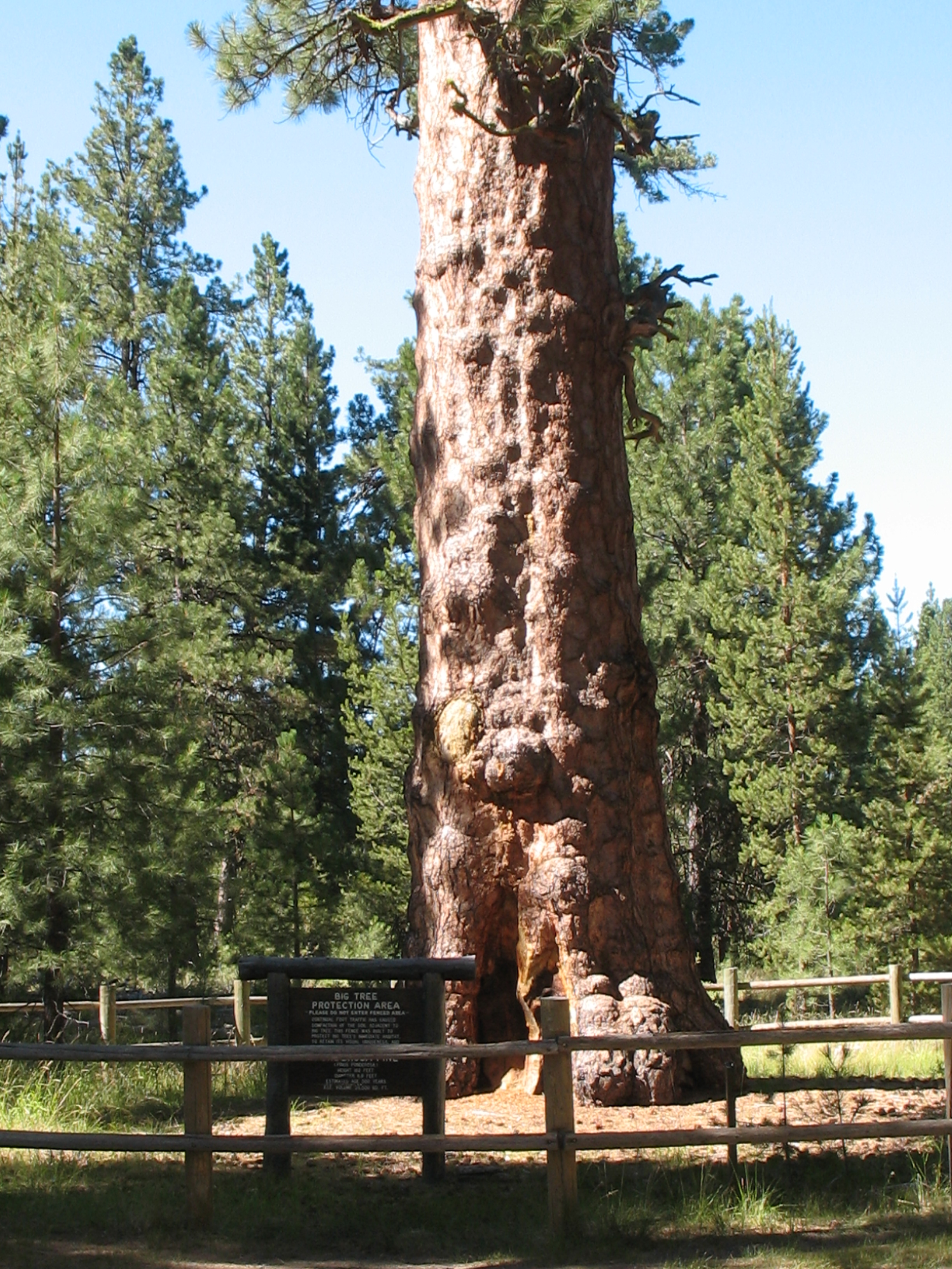 tallest Ponderosa Pine in Oregon; 50.6 m tall, dbh 277 cm, stem volume 114 m3. La Pine State Park, Deschutes County [1] 43°46'20"N 121°31'11"W, 1275m altitude.